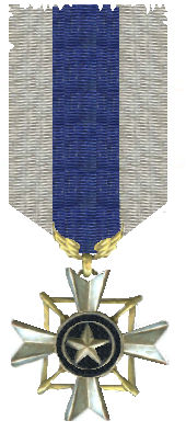 Air Gallantry Cross Vietnam